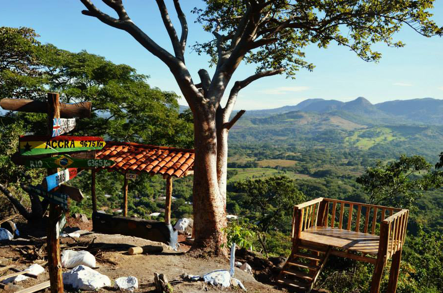 The Mirador's bioconstructed seating, international signpost and viewing platform - part of the stunning ecotourism route in Nuevo Gualcho, El Salvador